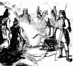 Hunnish Camp